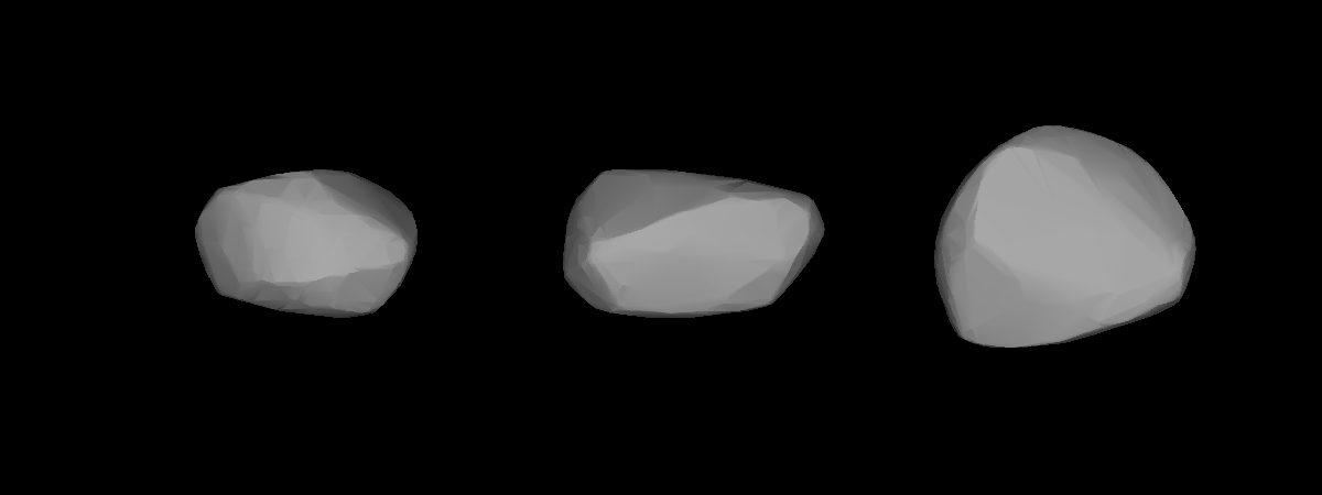 A three-dimensional model of 297 Caecilia that was computed using light curve inversion techniques.